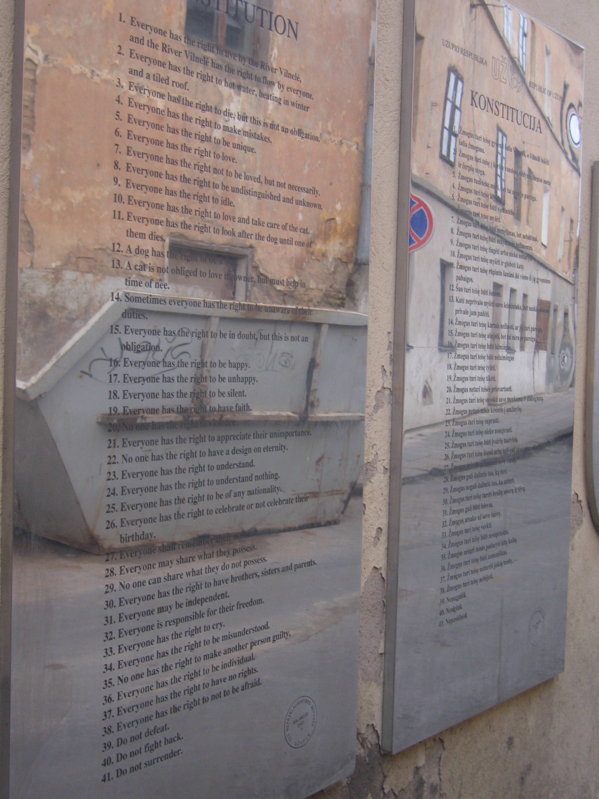 Constitution boards of the Užupis Republic